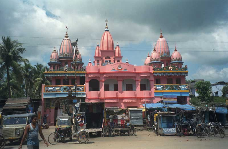 Gaudia Math